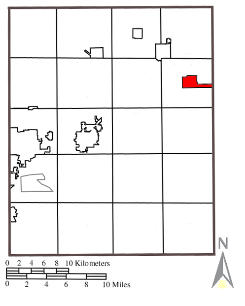 Map of Portage County, Ohio with the village of Windham highlighted.